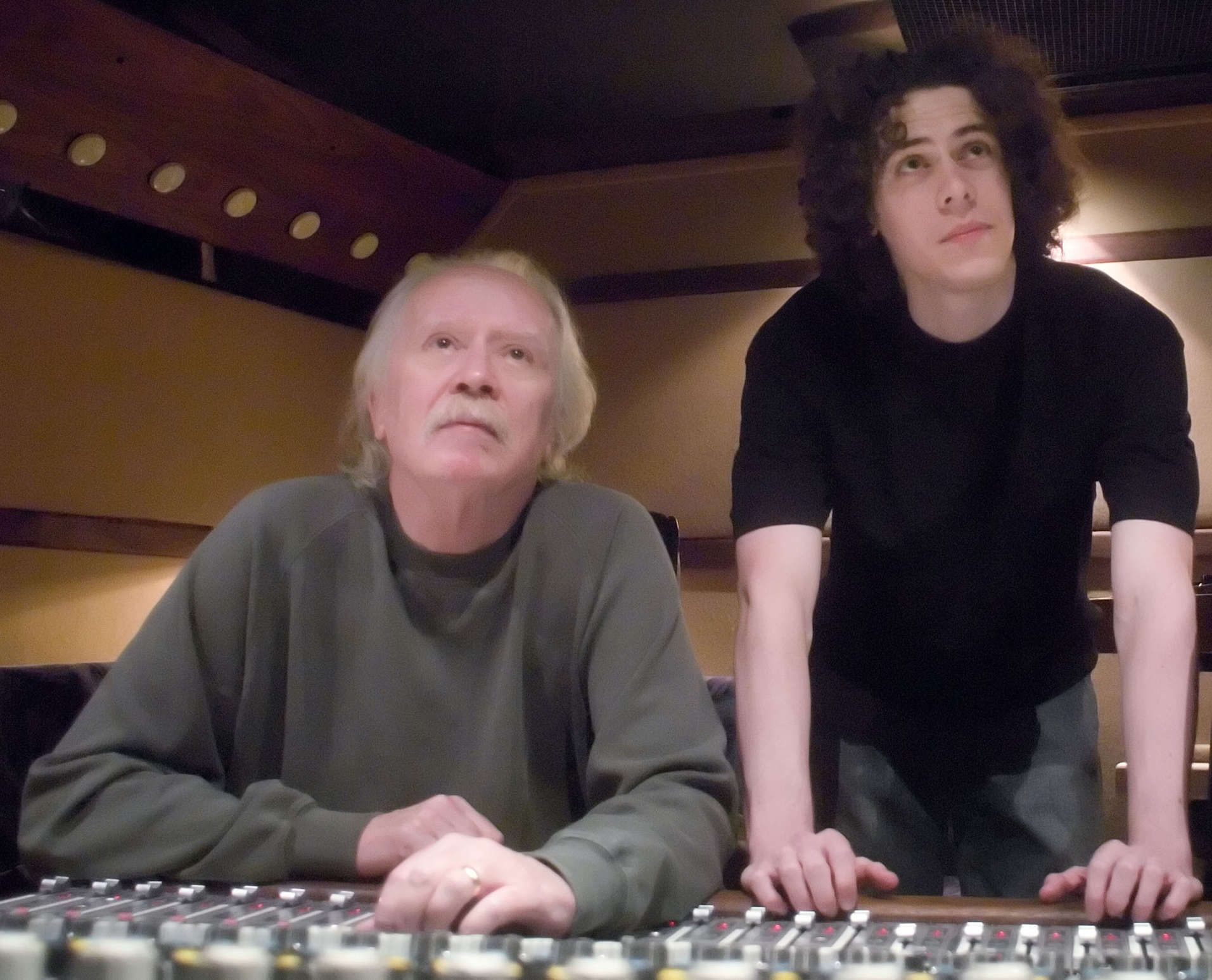 John & Cody Carpenter, Cherokee 2005